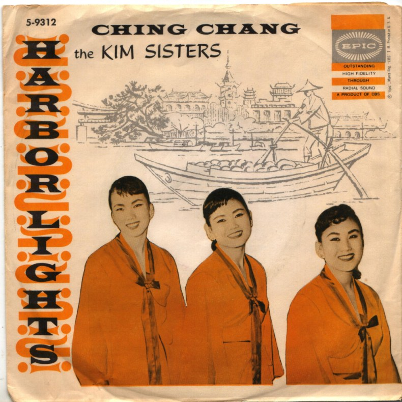 KIM SISTERS Harbor Lights 1959 US single